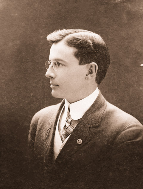 A portrait of William Merrell Vories taken around 1905.